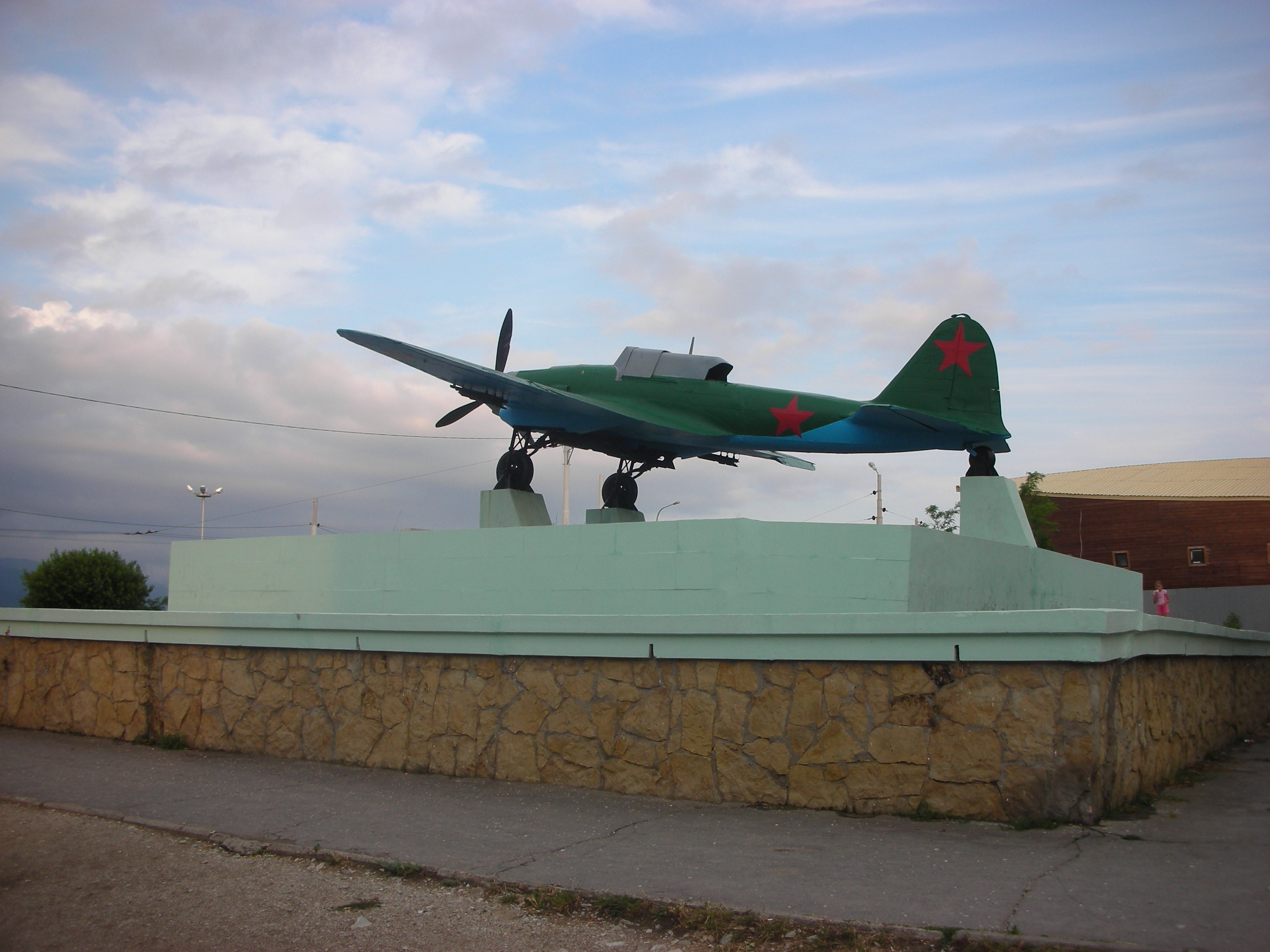 IL-2 memorial. Novorossiysk.